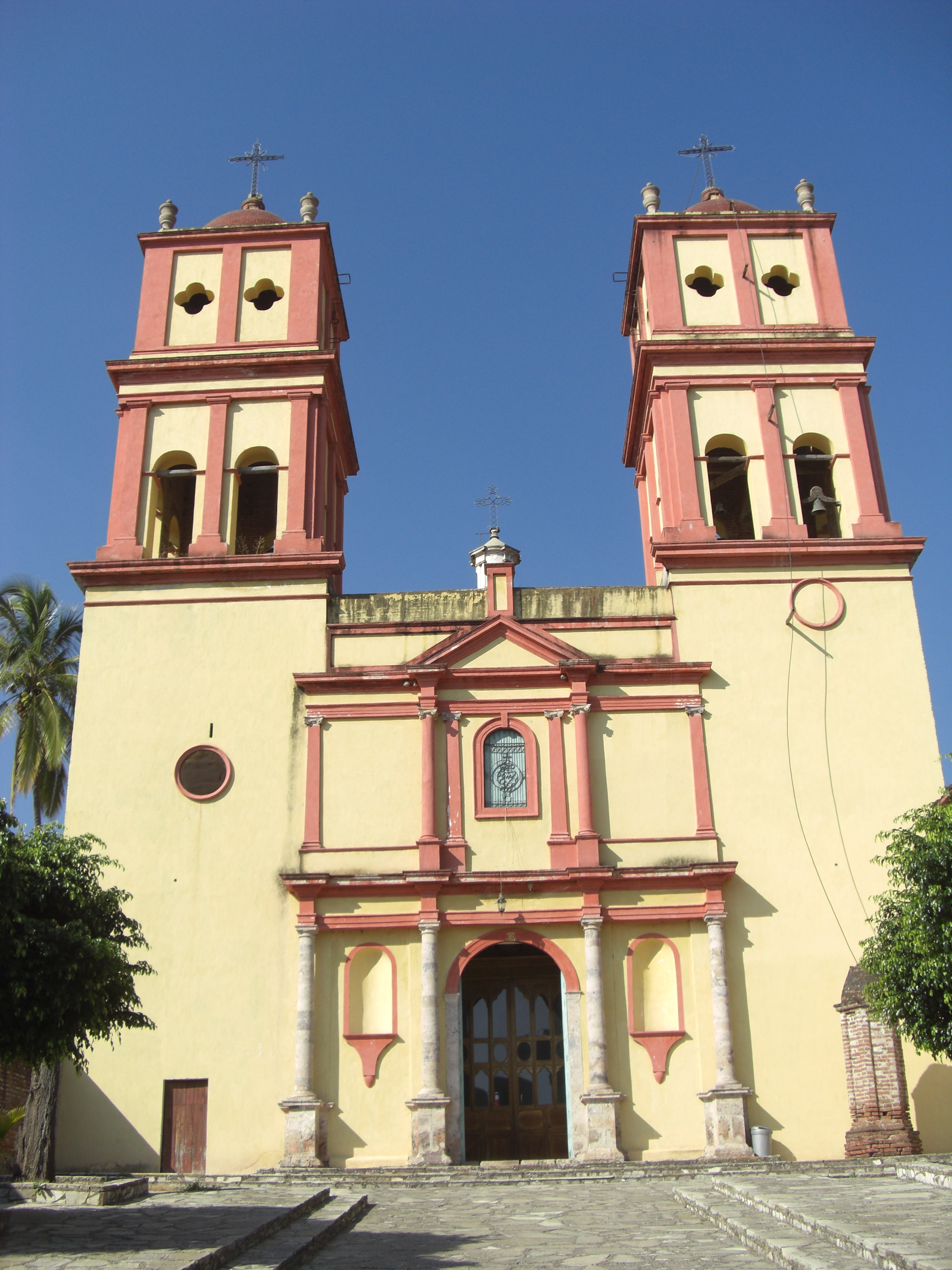 Santuario del Sagrado corazon